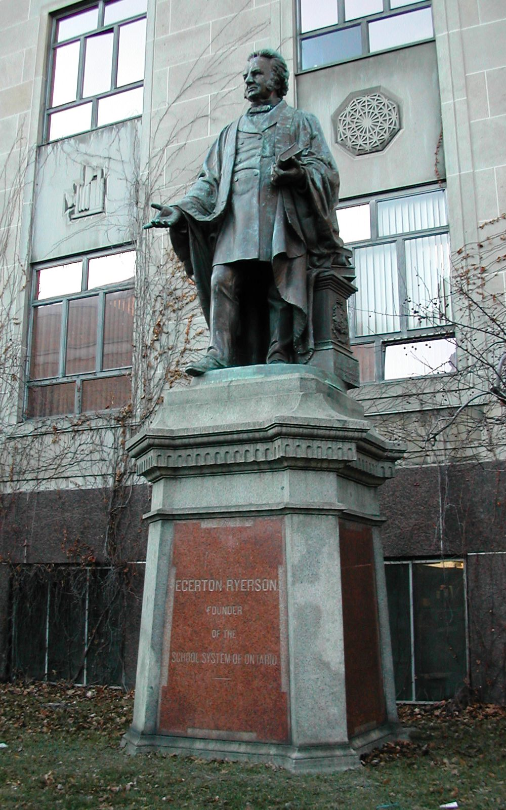 Statue of Egerton Ryerson, founder of the school system of Ontario, Canada